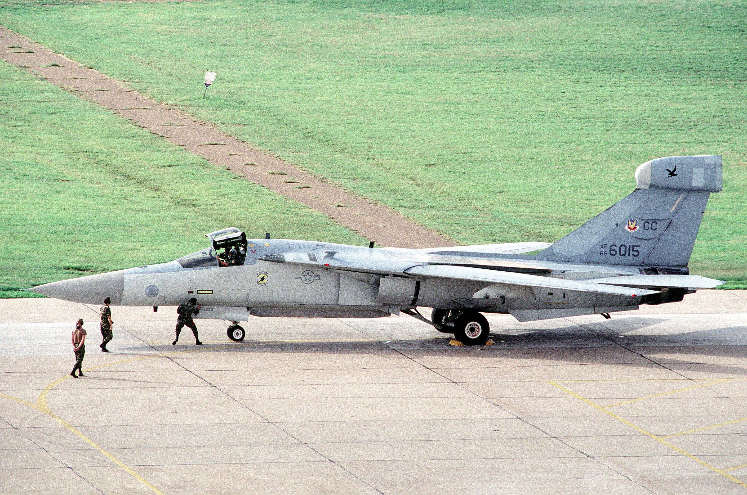 Maintainers from the 429th Electronic Combat Squadron, 27th Fighter Wing, prepare to launch an EF-111A "Raven" at Cannon Air Force Base, N.M. The Raven's the Air Force's premier electronic combat aircraft, which jams enemy radar signals and provides a protective electronic shield for attacking aircraft.Location: CANNON AIR FORCE BASE, NEW MEXICO (NM) UNITED STATES OF AMERICA (USA)